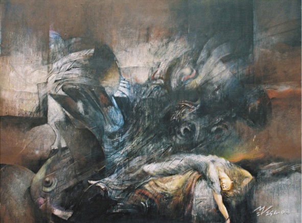 1 Painting Sopor (Drowsiness) by Mauricio García Vega